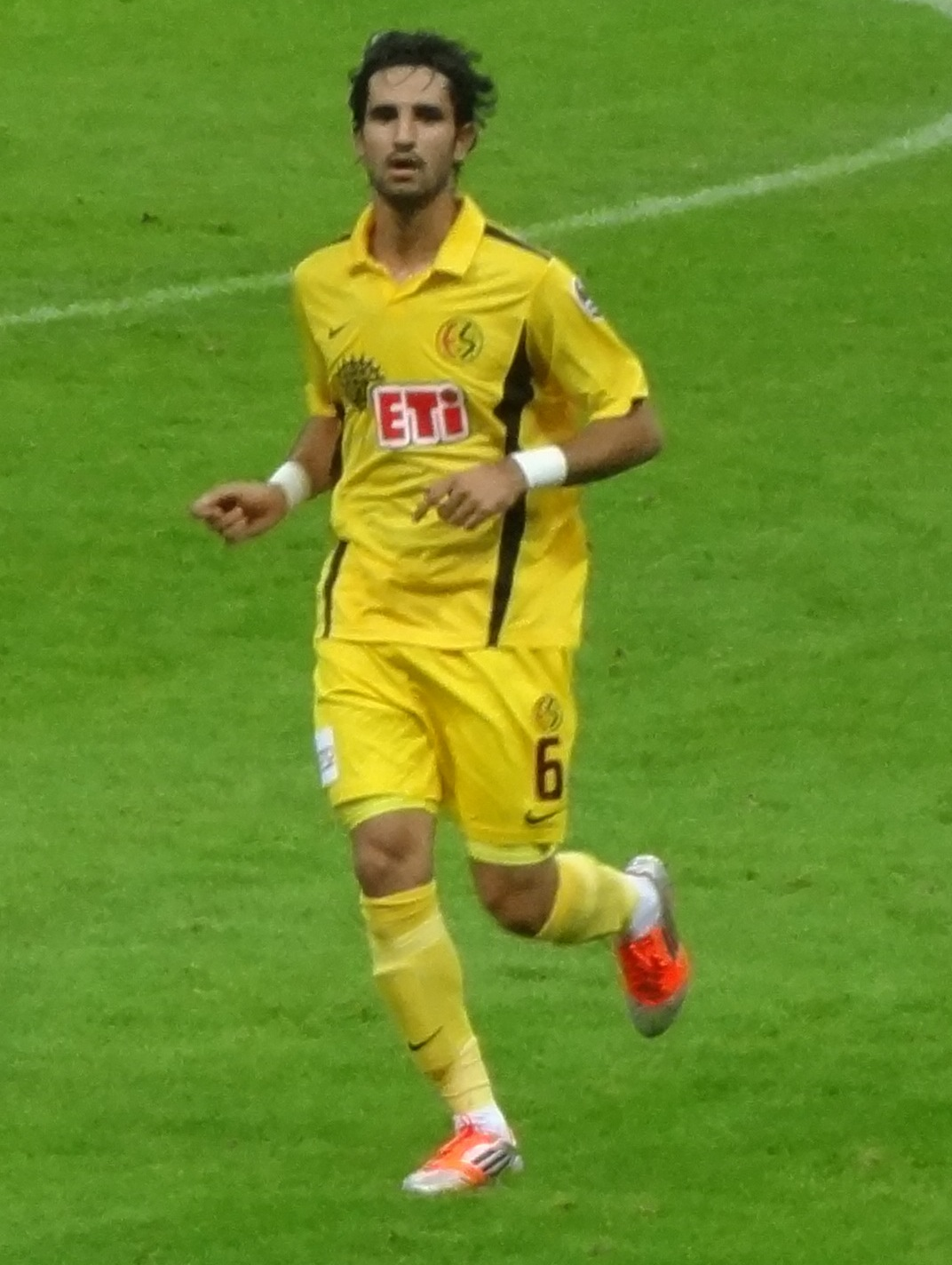 Alper @ GS Match